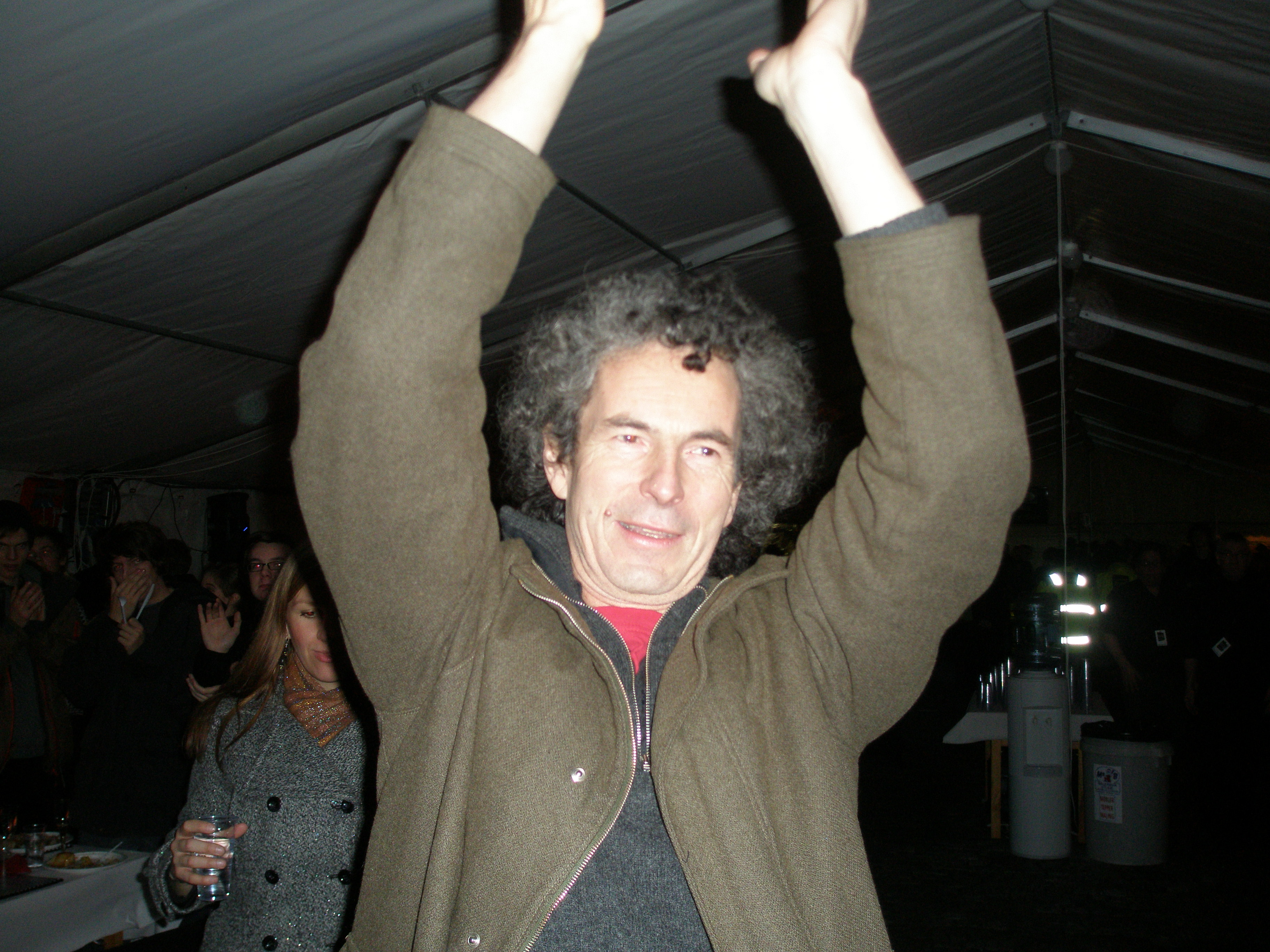 Orlando Gough in Stavanger after the closing ceremony of the European Capital of Culture 2008. He was the composer of the music of this event. Orlando Gough, komponisten for musikken under avslutningsseremonien for Stavanger 2008, etter avslutningsseremonien.